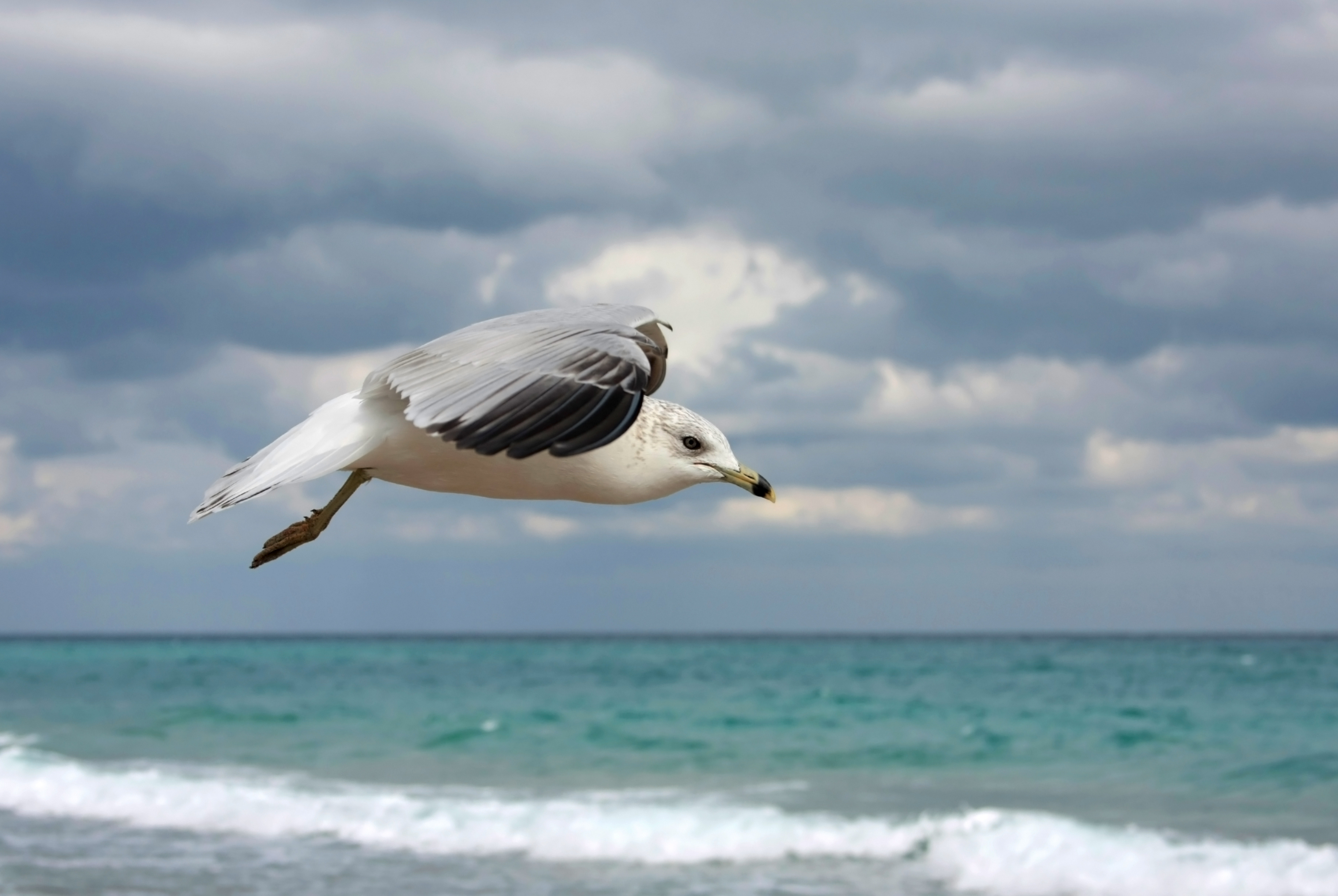 Ring-billed Gull (Larus delawarensis) in a hovering glide, the wind providing enough lift.